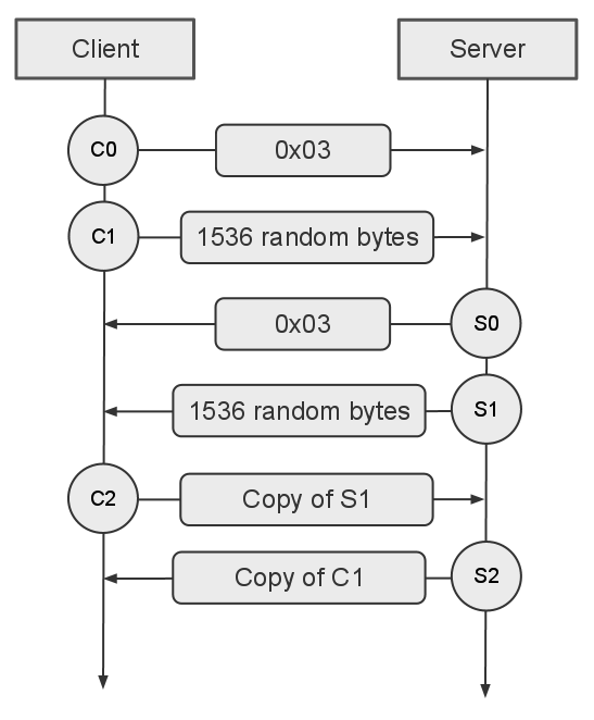 Depicts the handshake sequence of the Real Time Messaging Protocol used by Adobe Flash